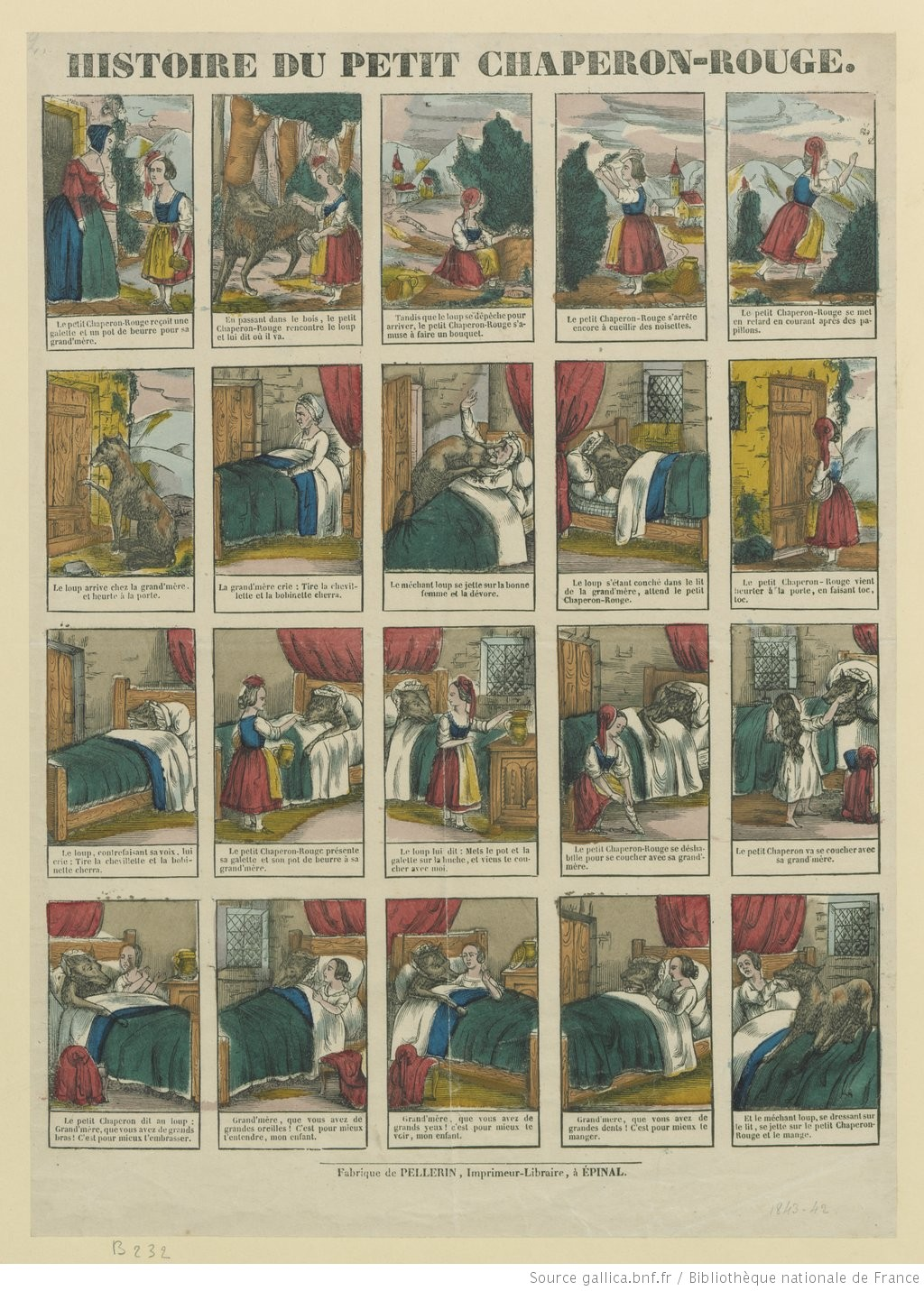 Little Red Riding Hood: image d'Épinal